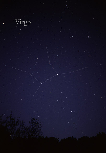 Photography of the constellation Virgo, the virgin